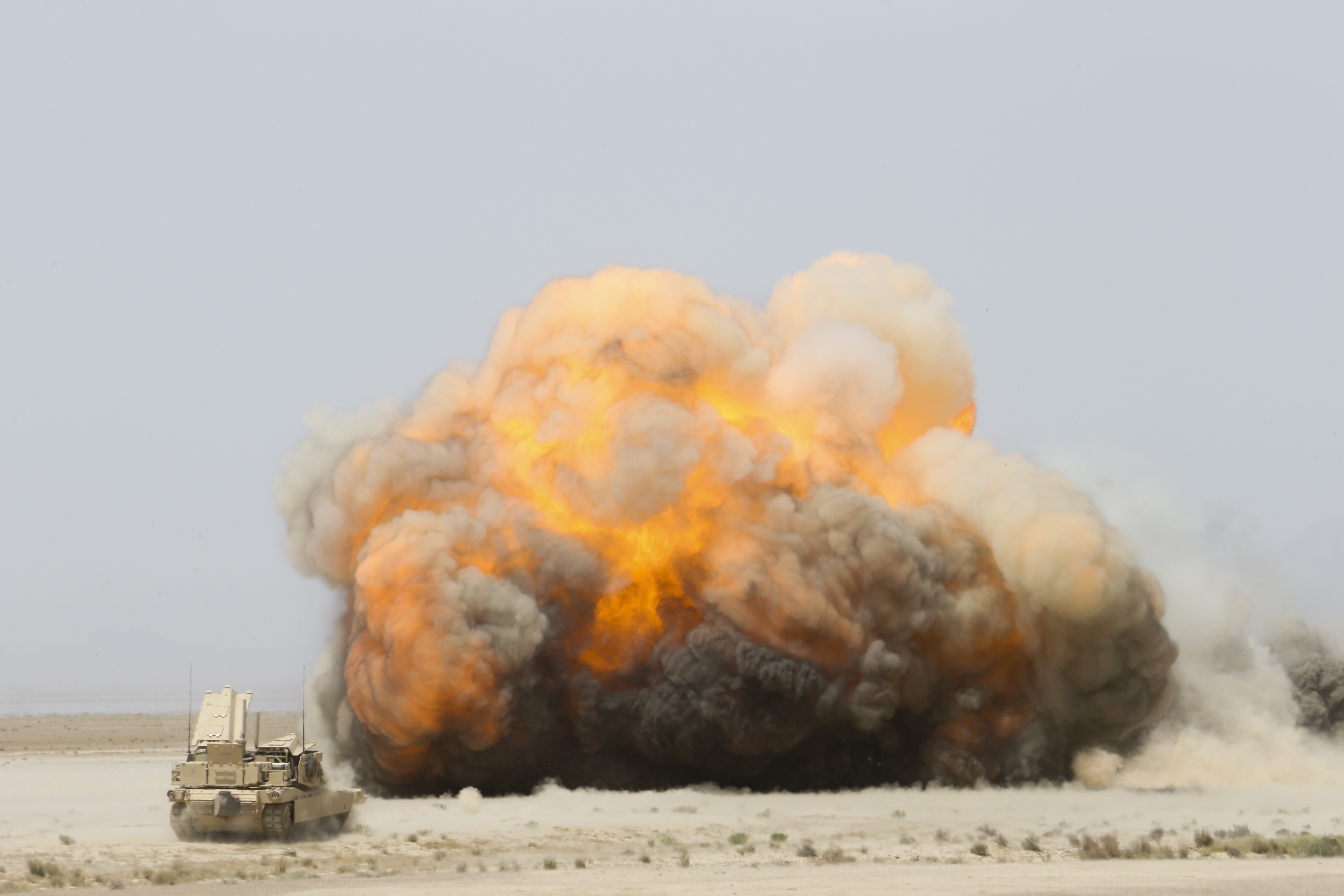 Marines with 2d Combat Engineers Battalion (2d CEB), utilize the M1 Assault Breacher Vehicle (AVB) to employ M58 Mine Clearing Line Charges (MICLIC) rockets attached with Composition C (C-4) explosive, in order to detonate emplaced mines prematurely near Camp Leatherneck, Helmand province, Afghanistan, April 29, 2014. AVB's also known as "The Shredder", are 72-ton, 40 foot tracked combat vehicle derived from the M1 Abrams model specifically designed to clear pathways for troops and other vehicles through minefields, roadside bombs and Improvised Explosive Devices. (U.S. Marine Corps Photo by Staff Sgt. Jonathan T. Spencer/RELEASED) Unit: MEB-A